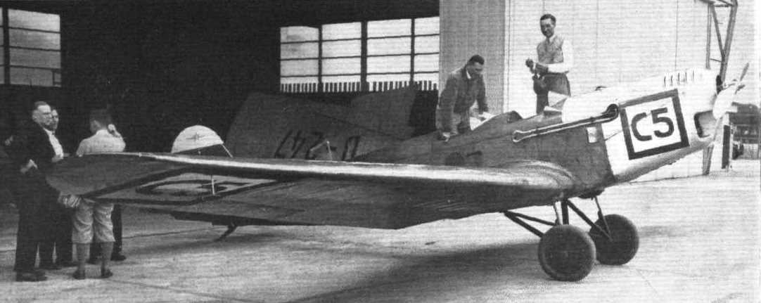 The Klemm L 26 winner at the Deutschlandflug 1931 race.